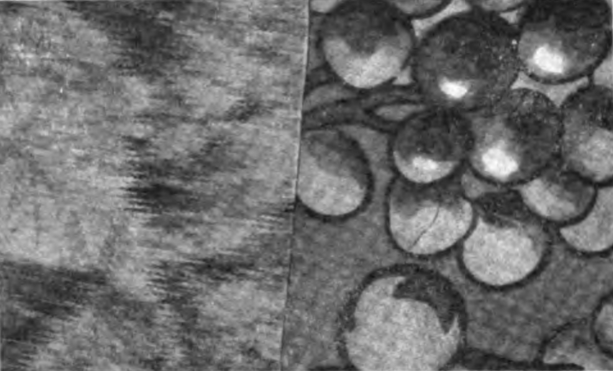 Two patterns of printed silk by Charvet for men's dressing gowns and smoking jackets. Published in Silk